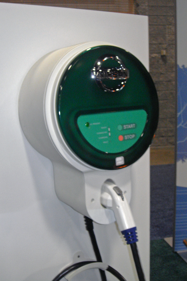 Electric charging unit for the Nissan Leaf exhibited at the 2010 Washington Auto Show (D.C.)